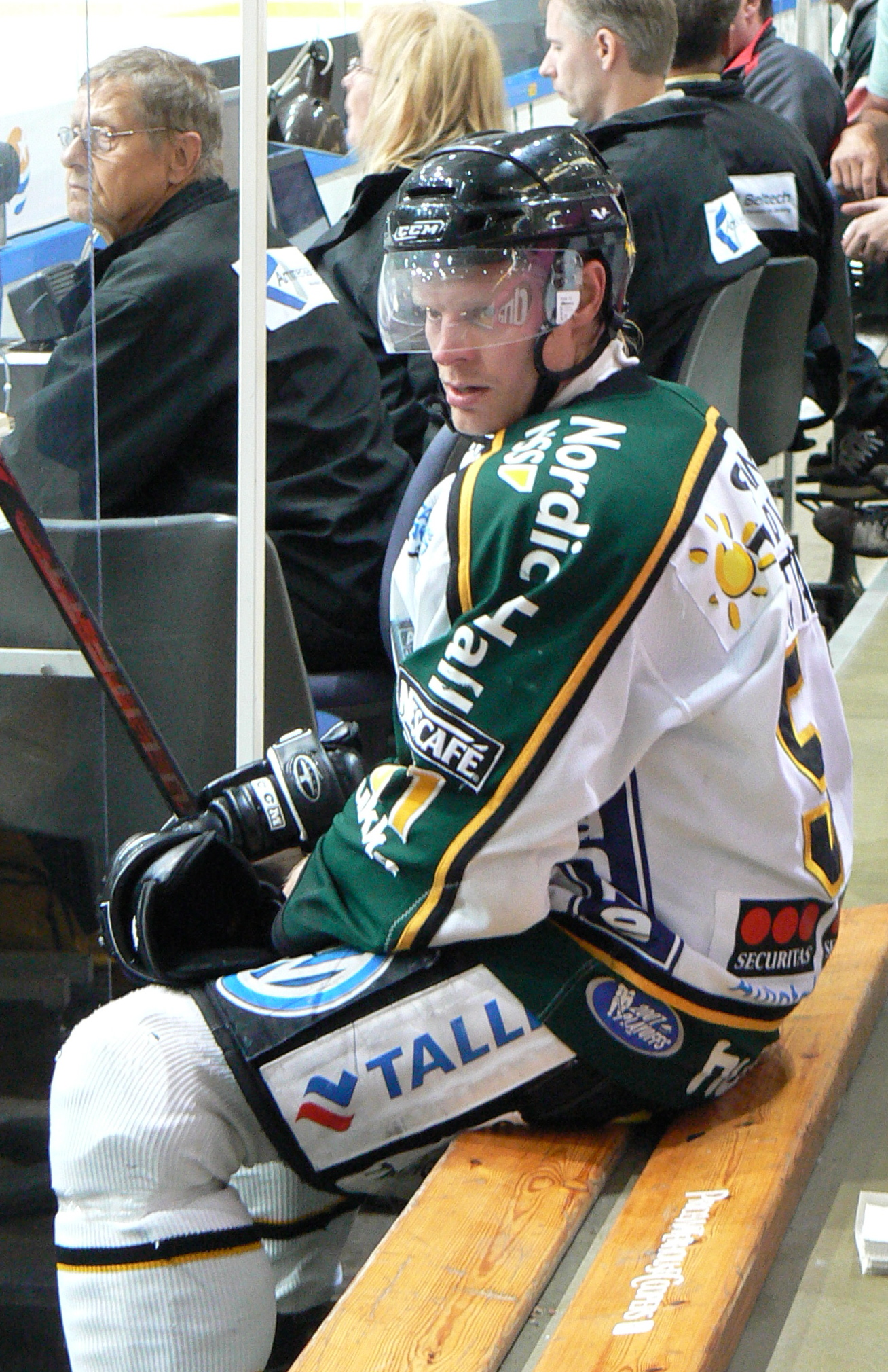 Ice hockey forward Pasi Määttänen of Ilves Tampere in the penalty box in a game against Espoo Blues at the 2007 Tampere Cup.